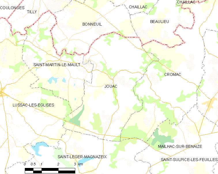 Map of French municipality Jouac